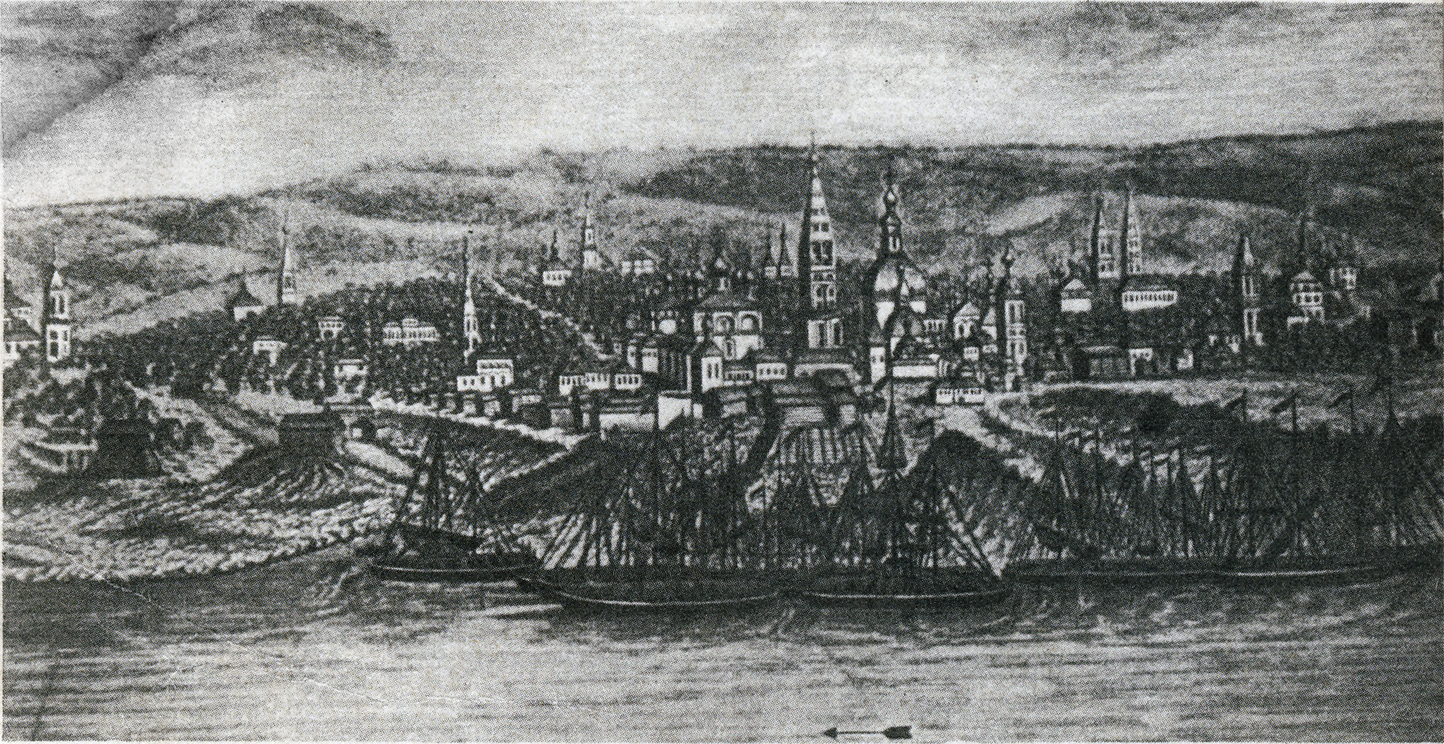 View to Cheboksary. (engraving, 1733)